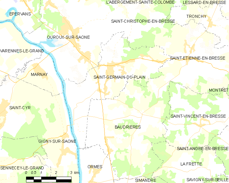 Map of French municipality